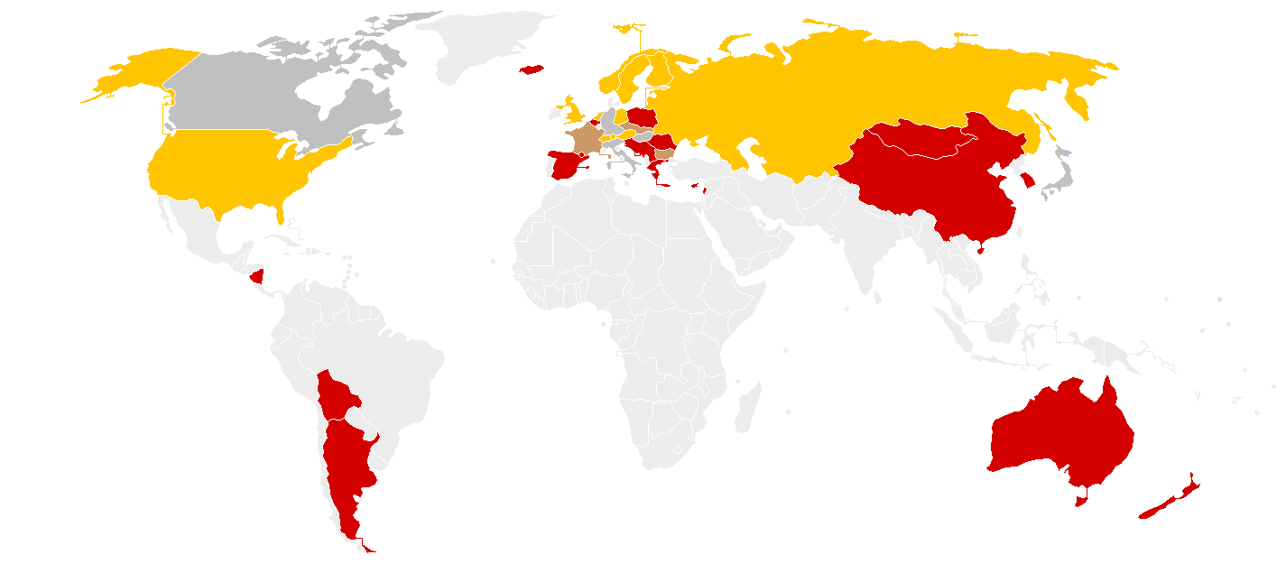 Countries with at least one gold medal Countries with at least one silver medal Countries with at least one bronze medal Countries that didn't get any medal Countries that did not participate